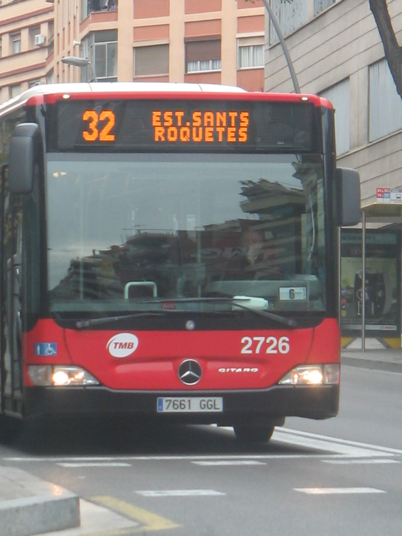 Barcelona bus.